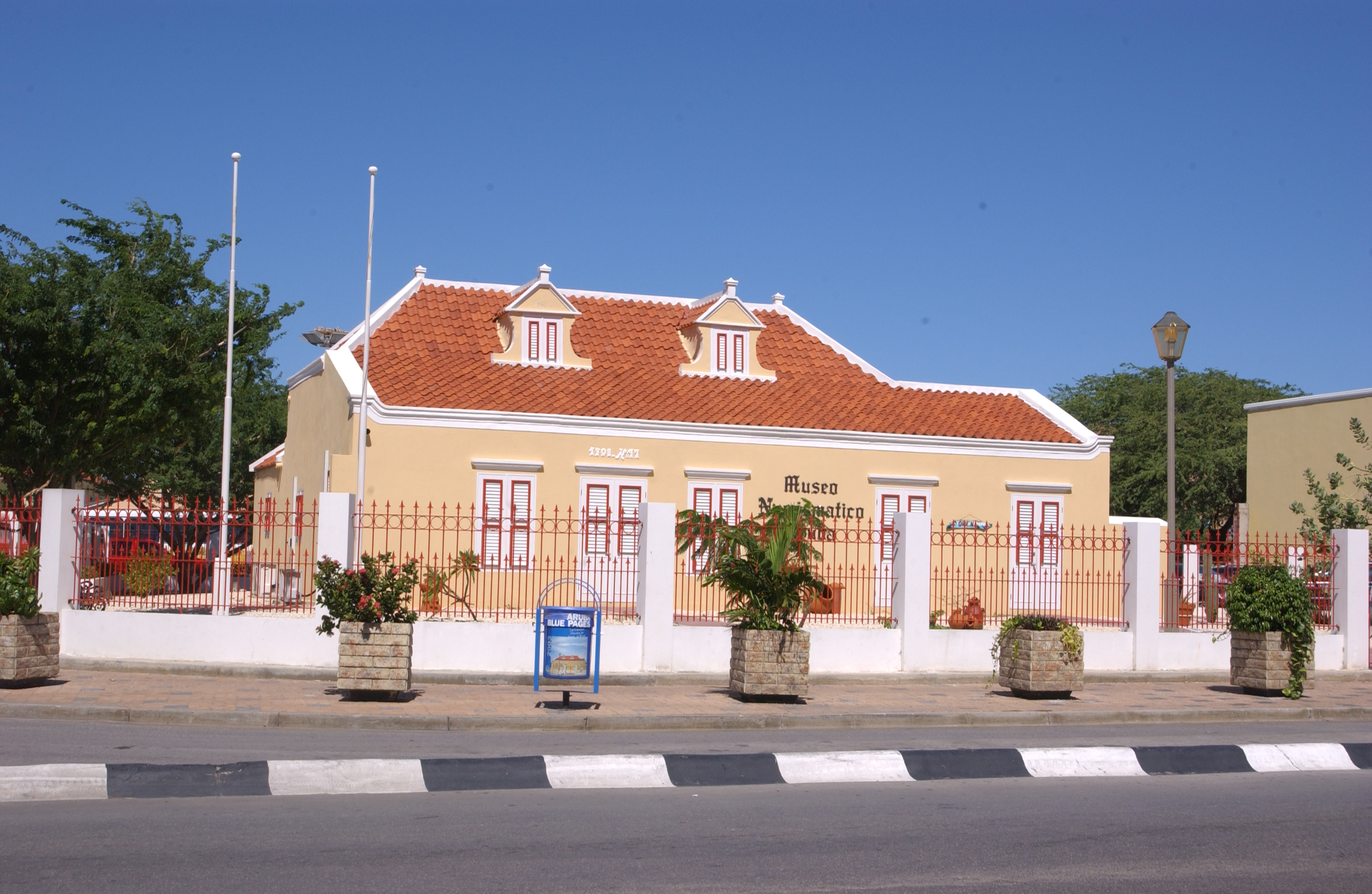 THE NUMISMATIC MUSEUM IS A FASCINATING PLACE BEGUN BY A FASCINATING MAN, JUAN MARIO ODOR, WHO IN 1955 FOUND A PENNY AND HALF-PENNY IN HIS YARD IN ARUBA AND BEGAN A LIFETIME OF COLLECTION COINS. HE OPENED THE MUSEUM IN 1981